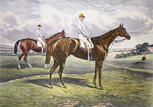 Contemporary etching of 1884 Derby winner Harvester. The horse in the background is St Gatein.